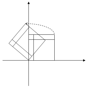 simple graphics describing a rotation around the source of a coordinate system